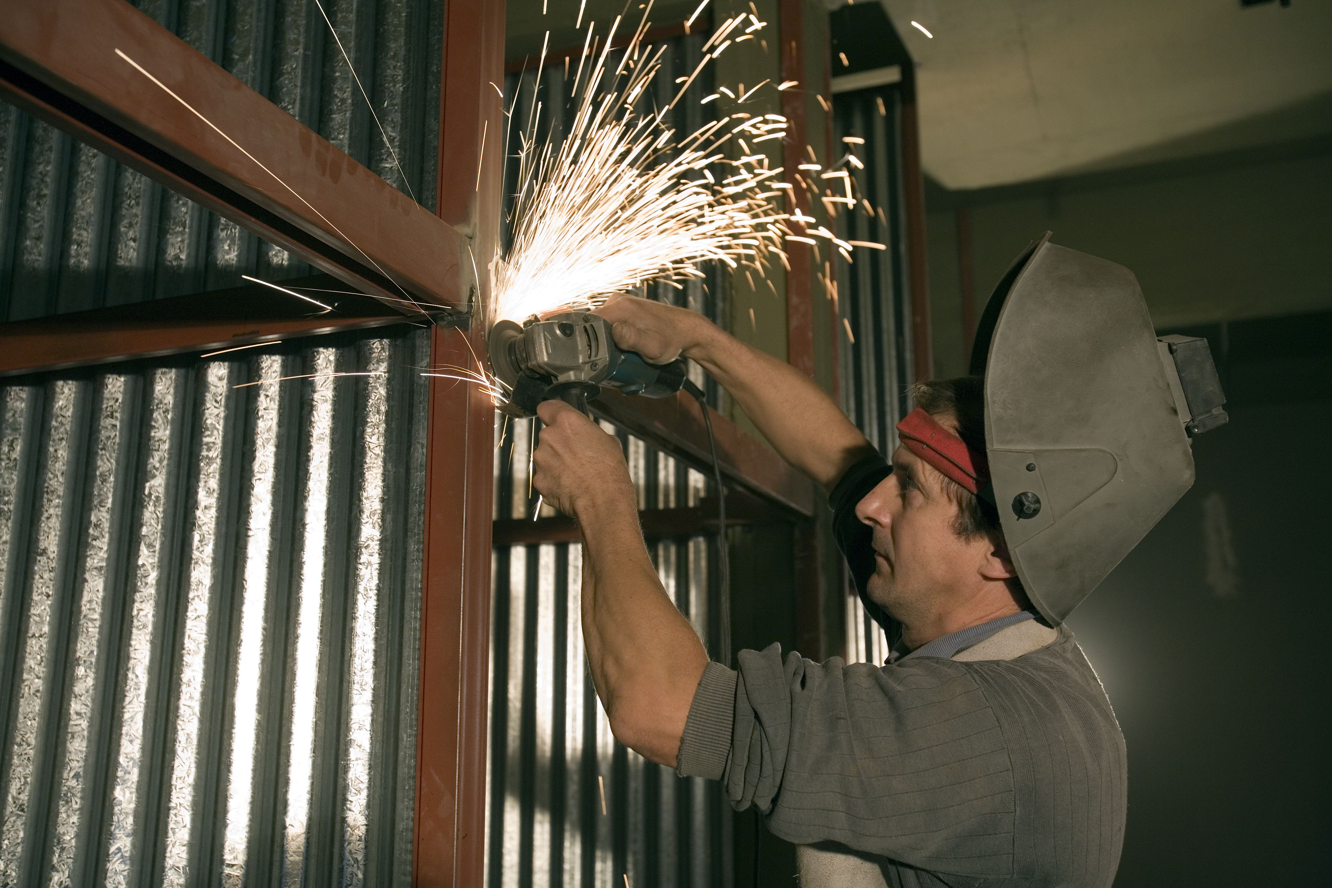 Steel iron construction worker cutting metal and sparks